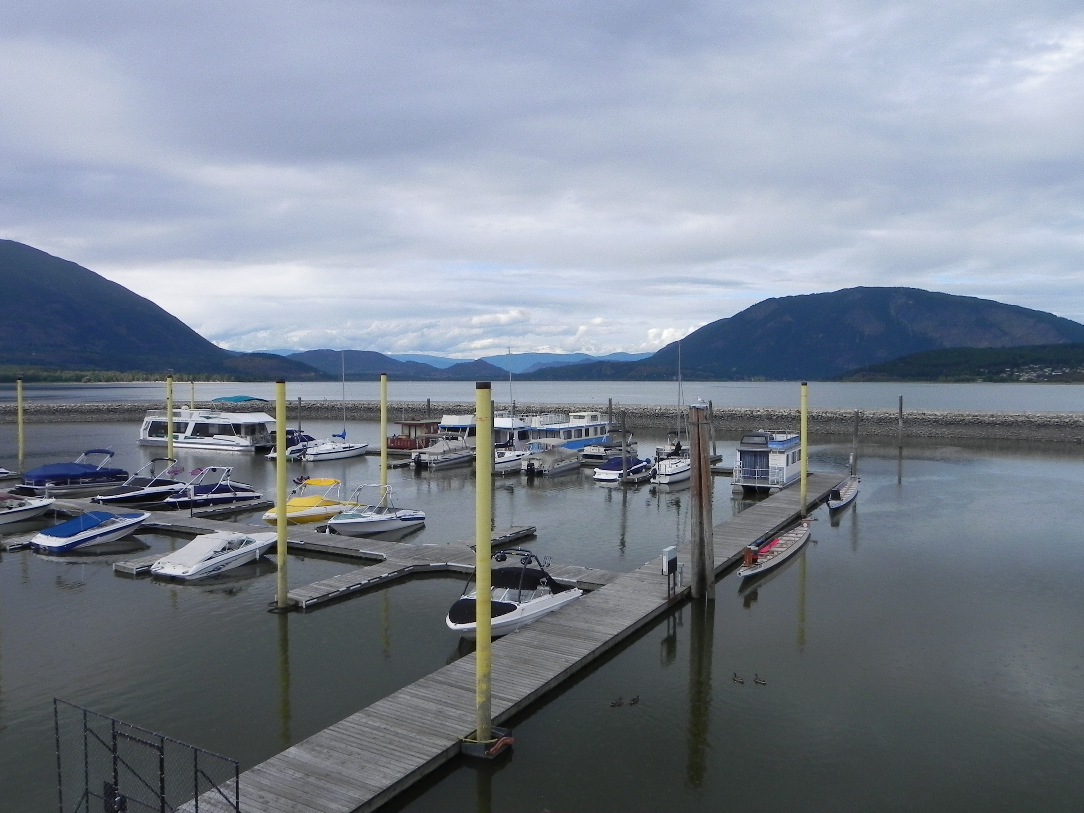 harbour at Salmon Arm on Shuswap Lake